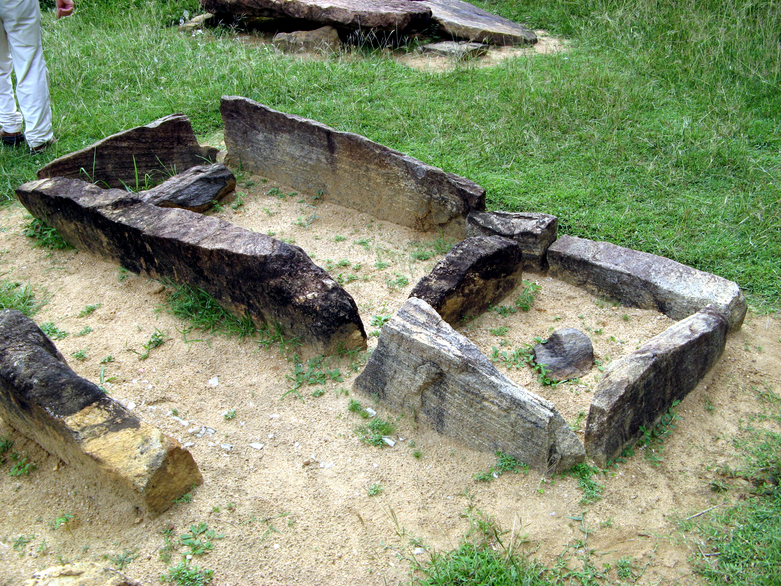 Multiple Burial. Ibban Katuwa, Sri Lanka While most cists at Ibban Katuwa contain only a single burial, the one shown here is a rare multiple burial, where the cist chamber has been divided into two compartments. The contents of this and the other graves have, of course, been removed to the site museum for conservation and display. Megalithic technology in Europe dates back to the Neolithic (4th millennium BC). However, in South Asia this technology appears only much later, in the Early Iron Age: there is no Neolithic period, as such, in South Asia. In particular, the cist burials at Ibban Katuwa are dated by radiocarbon analysis to the 6th century BC.